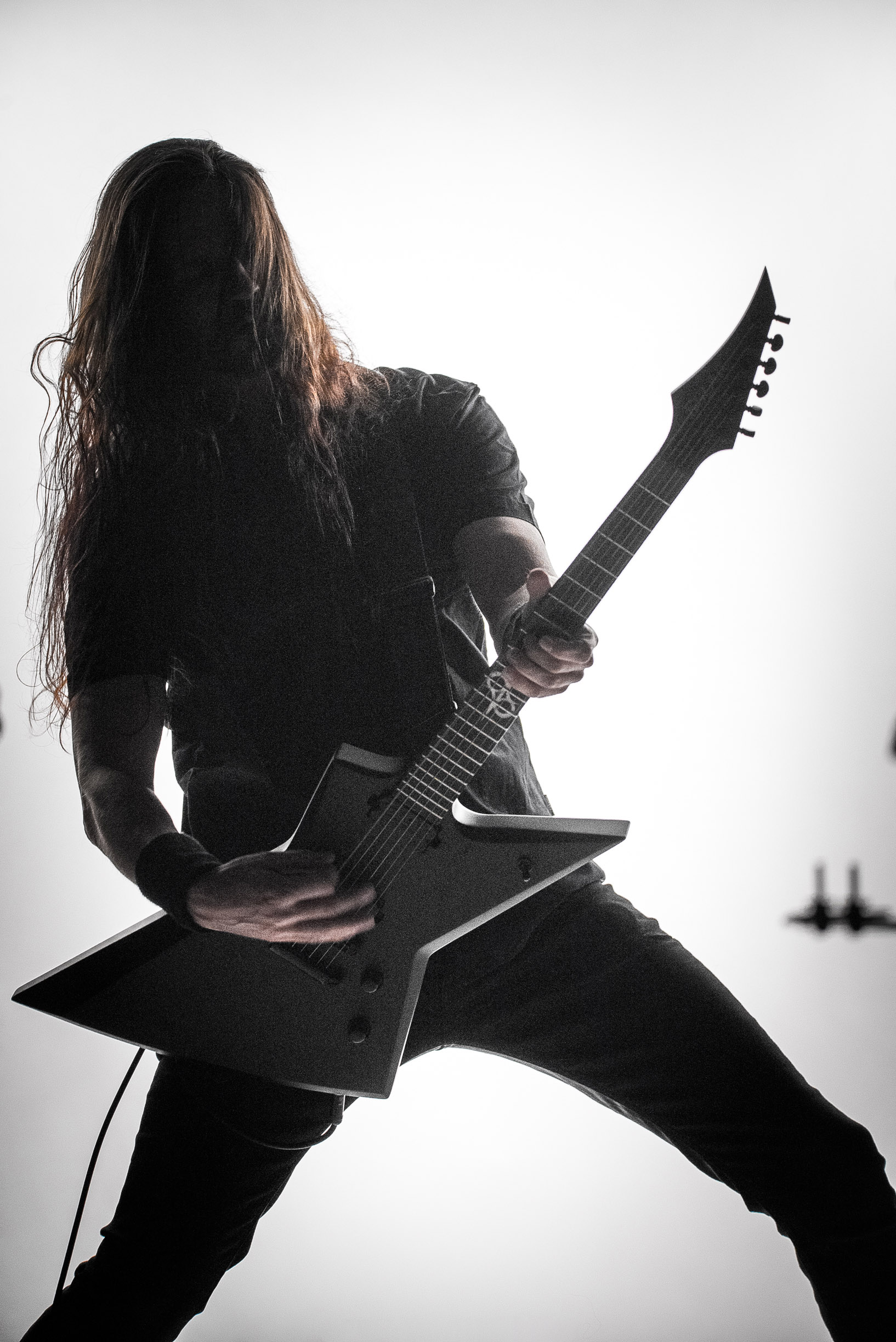 Musicvideo recording session for swedish metal band The Haunted